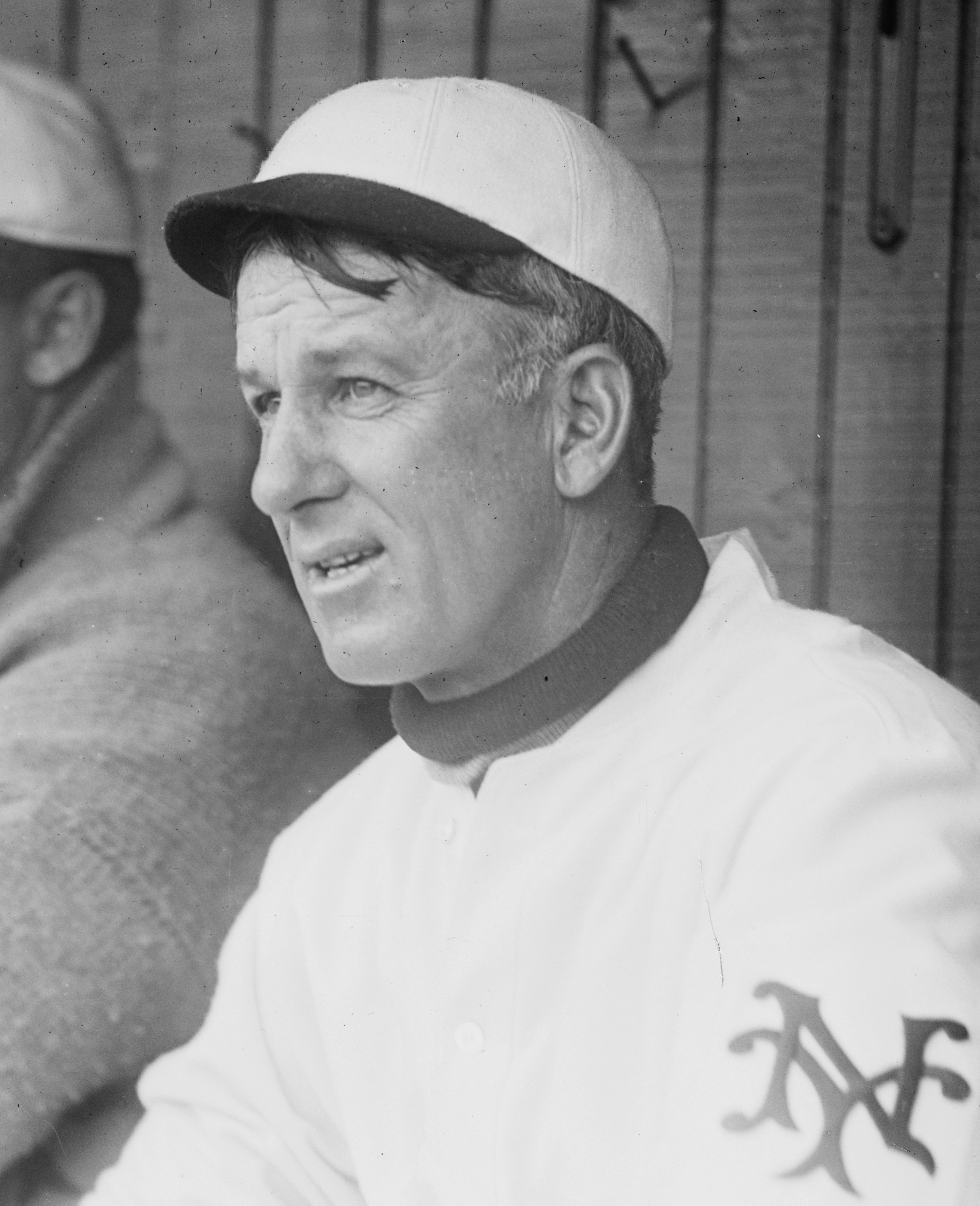 The dugout of the New York Giants baseball team in 1909. The man in the center is Giants pitching coach (and former player) Wilbert Robinson. The man on the right is Giants third base coach (and active player) Arlie Latham.